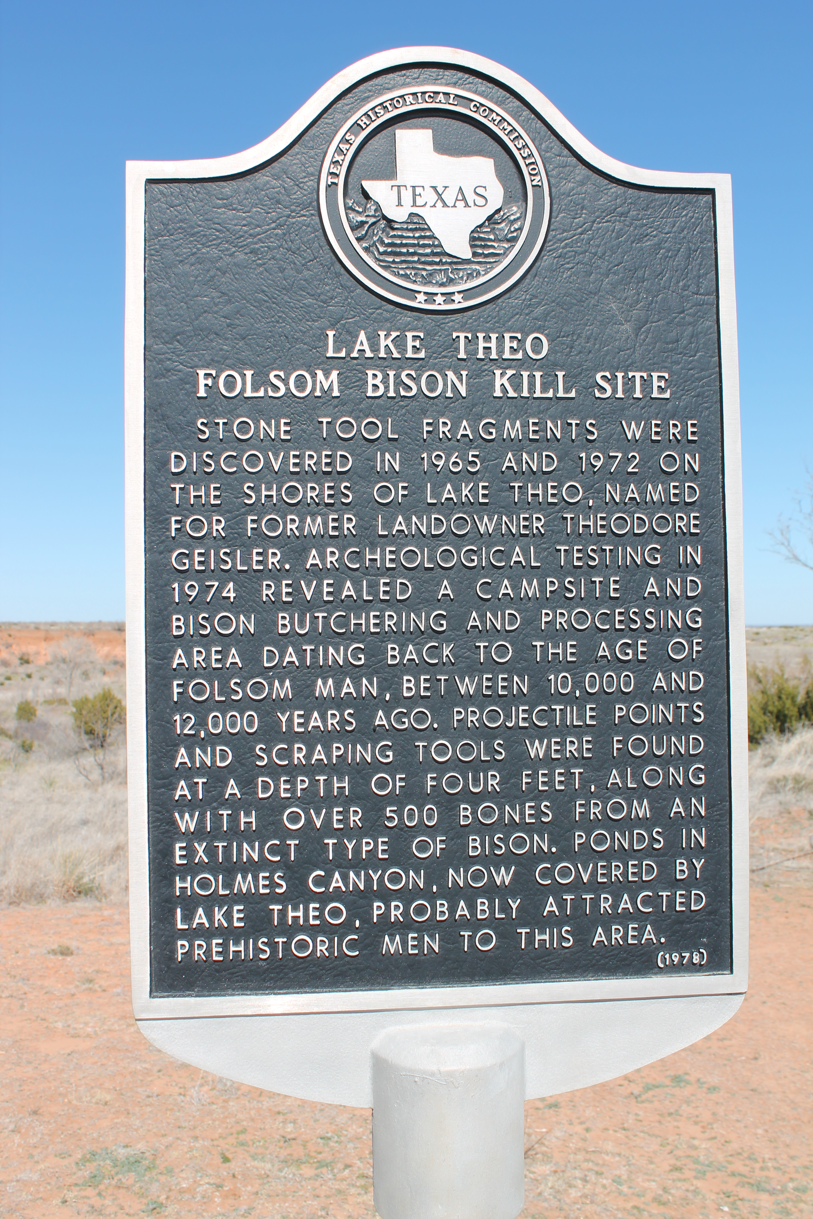 Lake Theo Folsom Site Complex